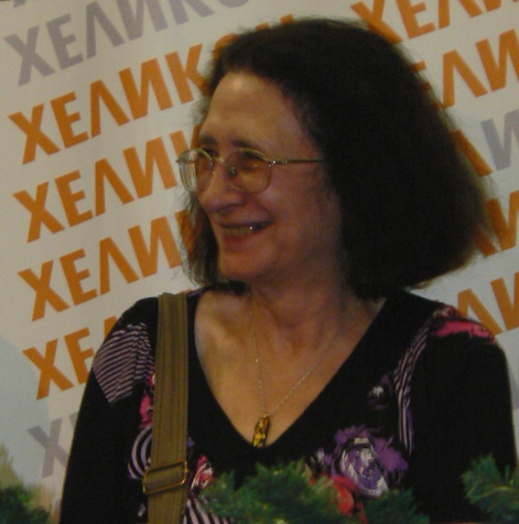 Bulgarian writer and translator Rositsa Tasheva. On the award ceremony of the Helikon literary award, which she received in 2010